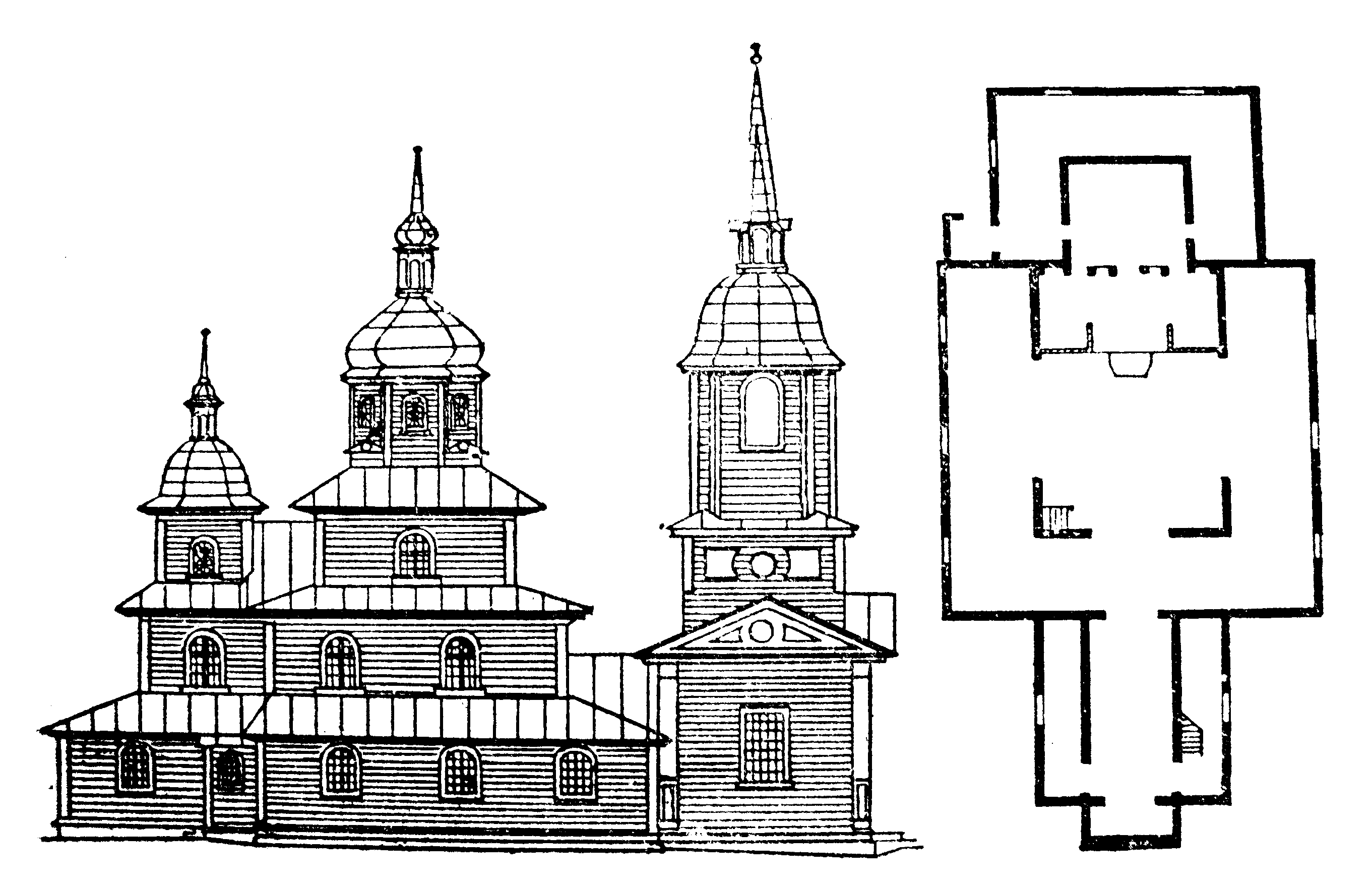 Drawning of Church of Saint Michail